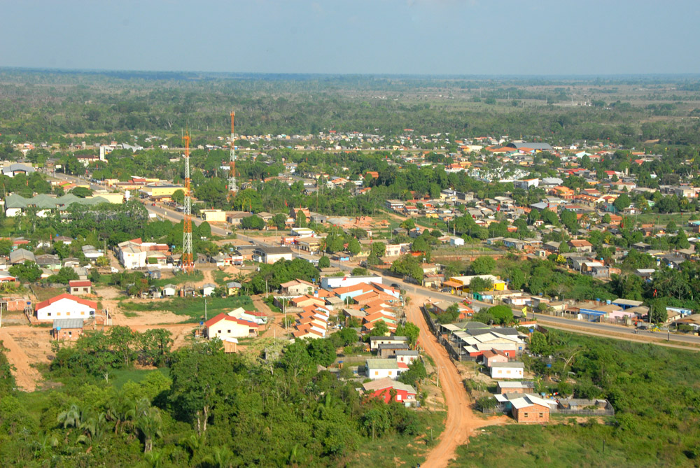 Sena Madureira, Acre.